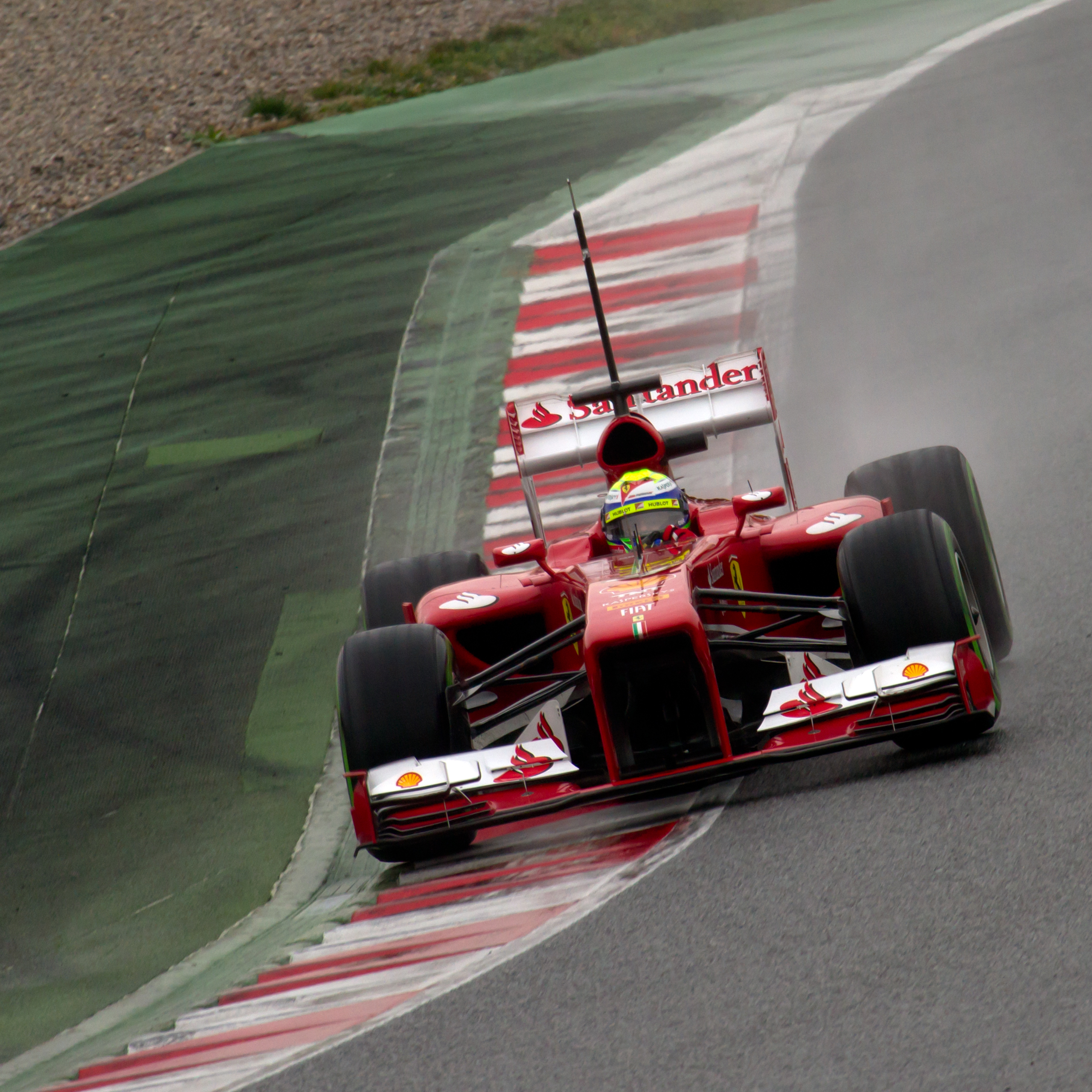 Formula One 2013 Catalonia test (19-22 February): Felipe Massa (Ferrari)